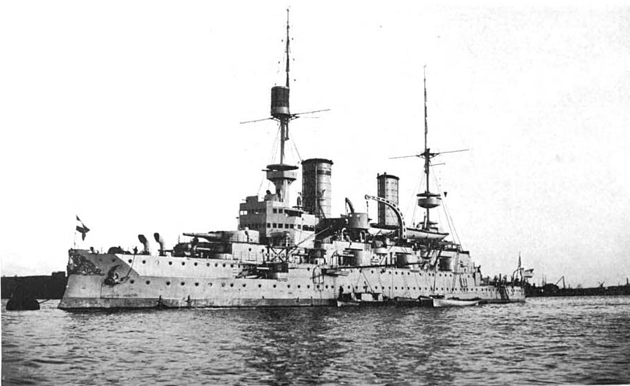 German battleship Kaiser Friedrich III